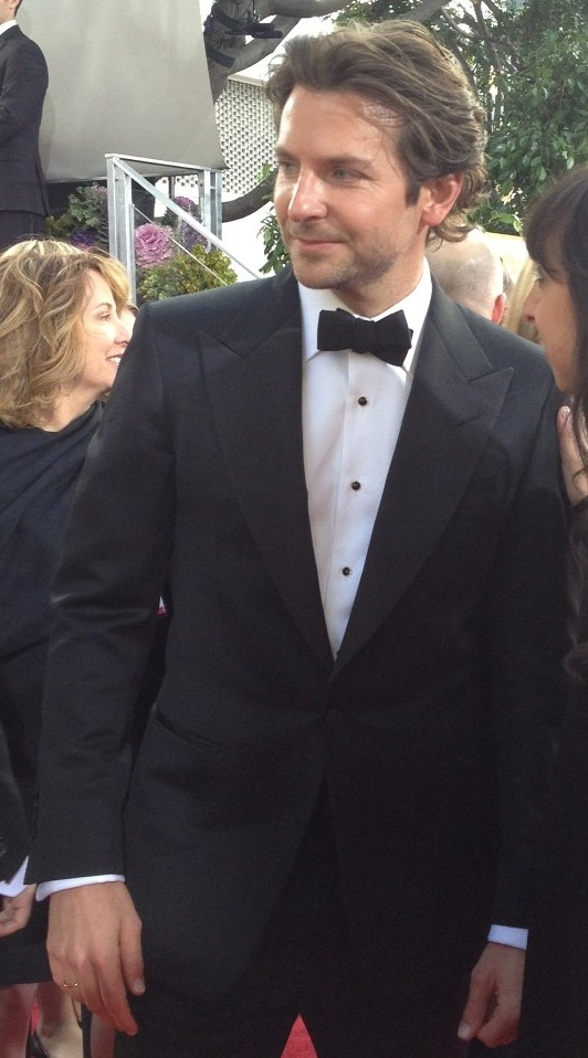 Actor Bradley Cooper at the 2013 Golden Globe Awards